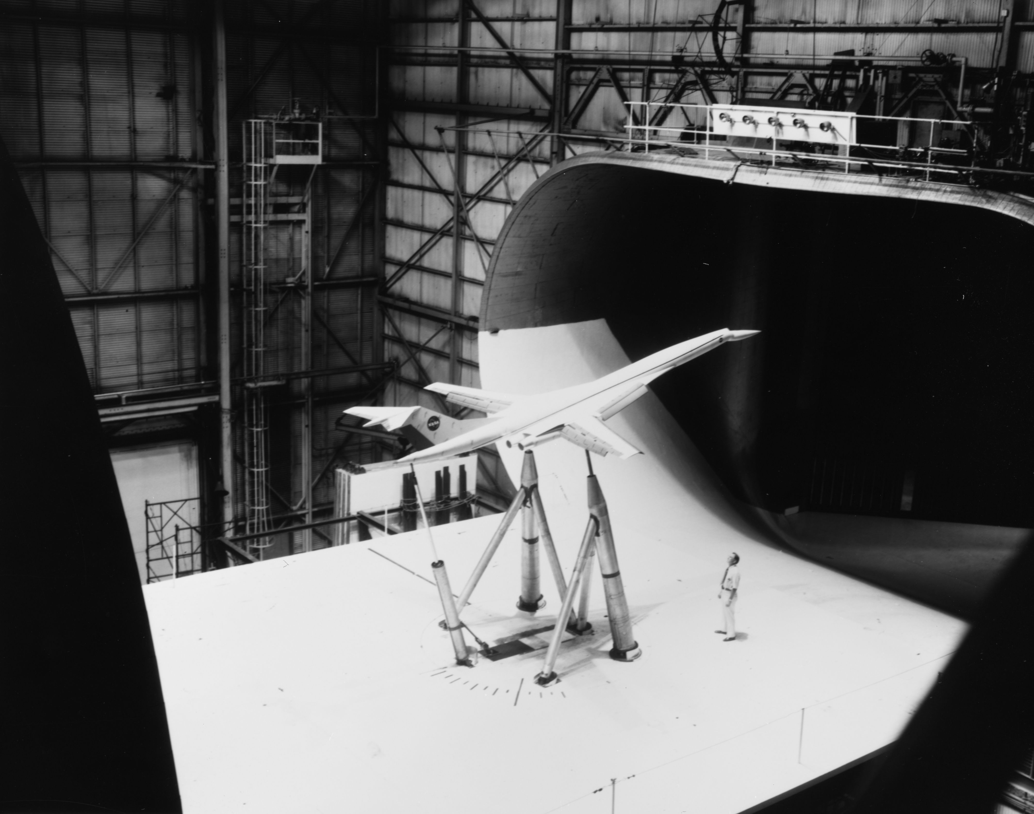 Full Scale Wind Tunnel (NASA Langley) (cropped)